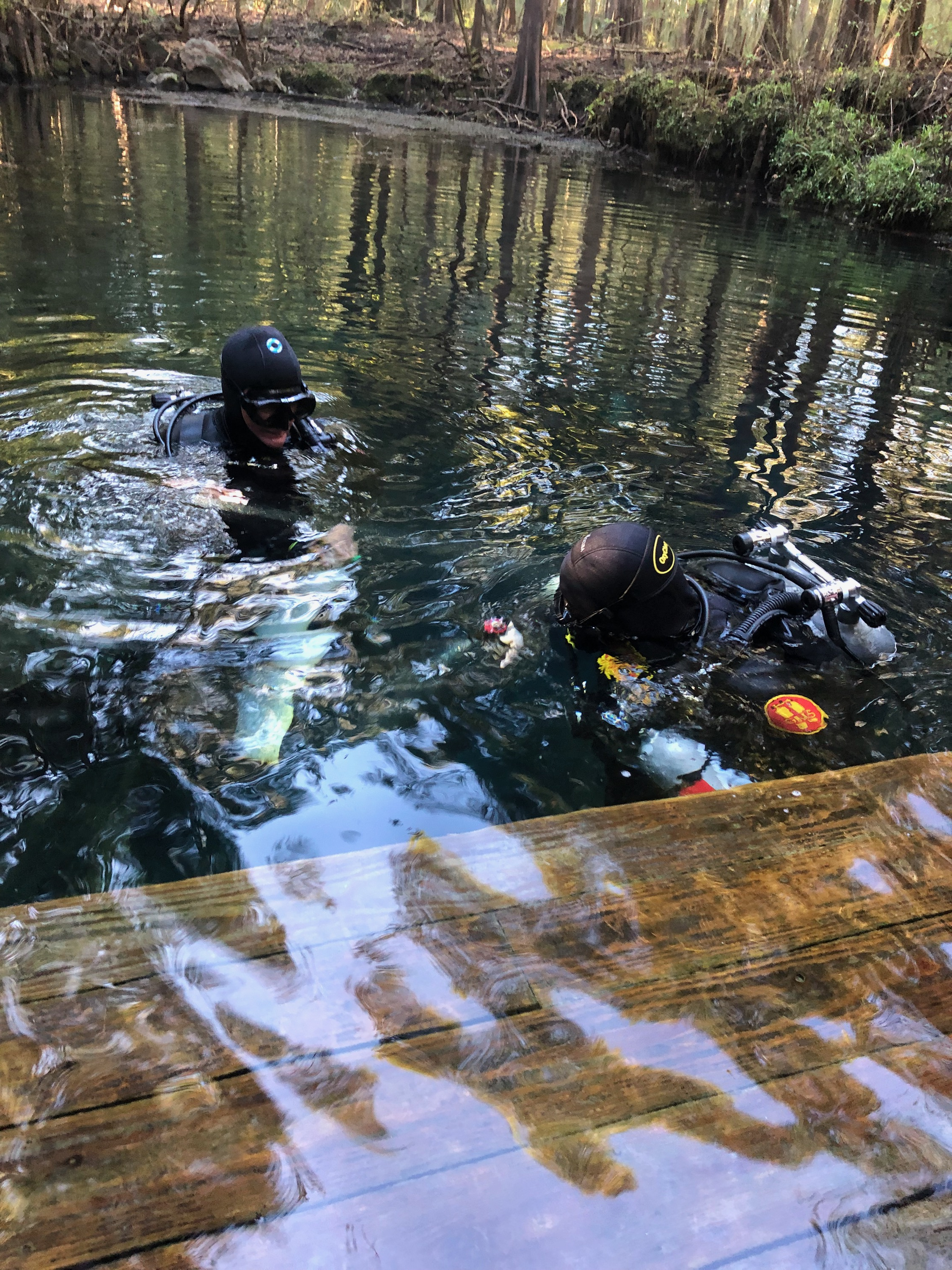 Dive prep